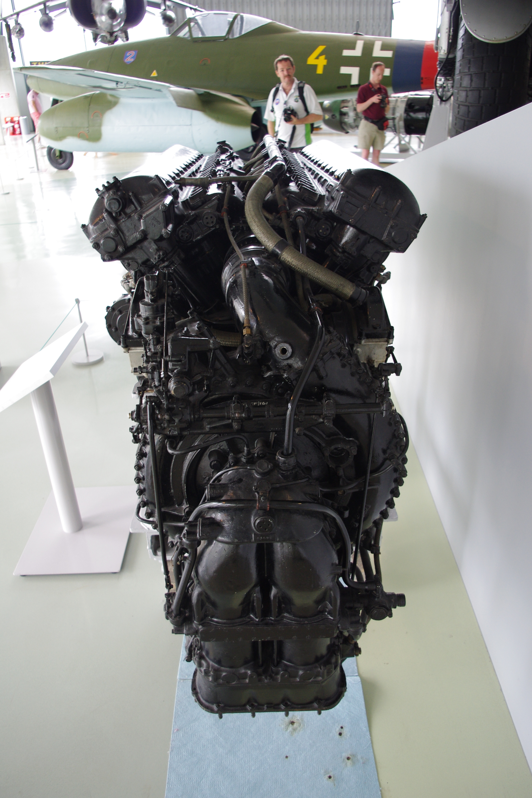 Rolls-Royce Merlin 23 engine, at the Royal Air Force Museum London.